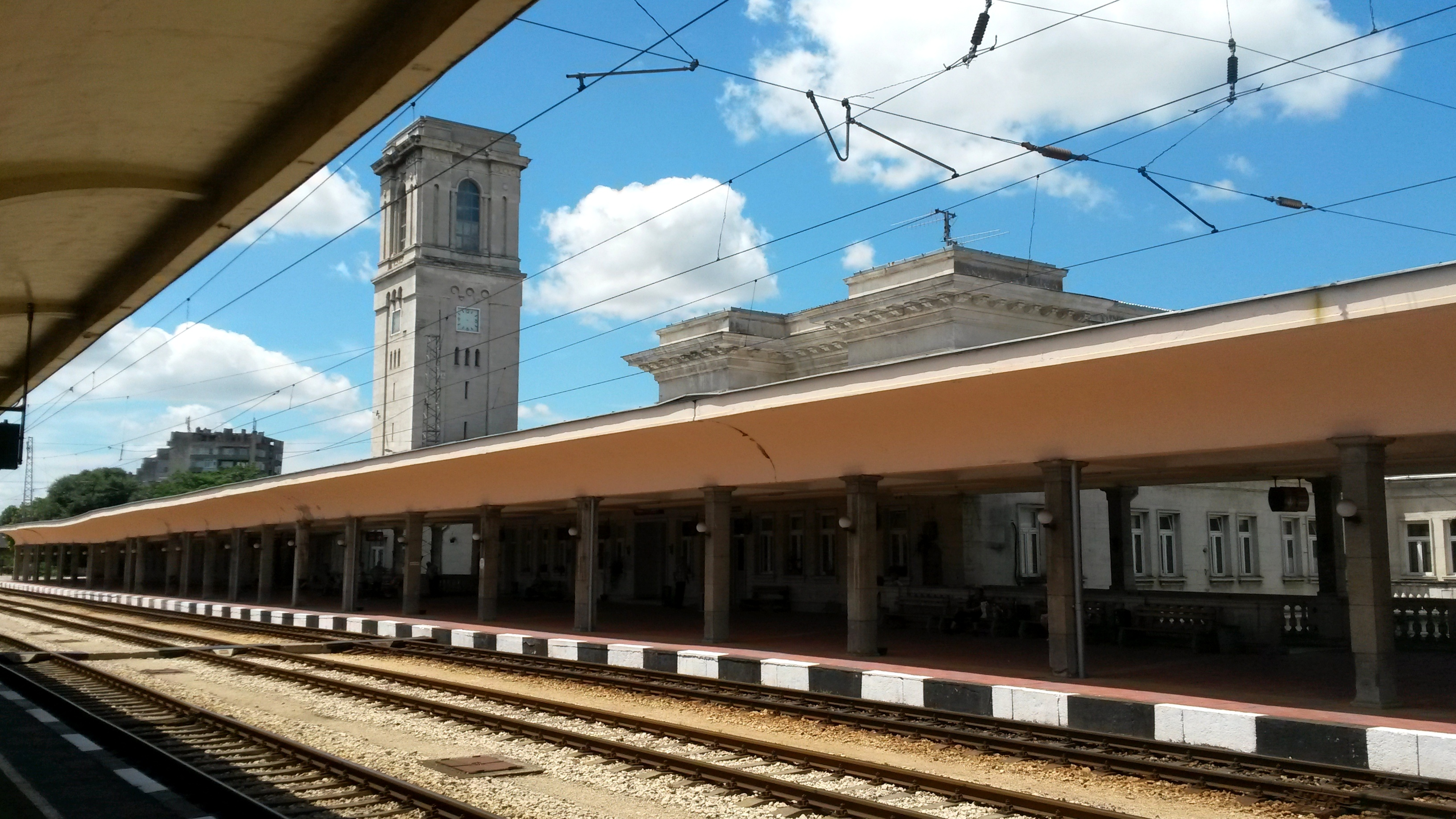 2014-06-26 in Rousse.